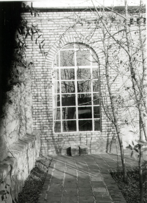 Jalal Al-e-Ahmad